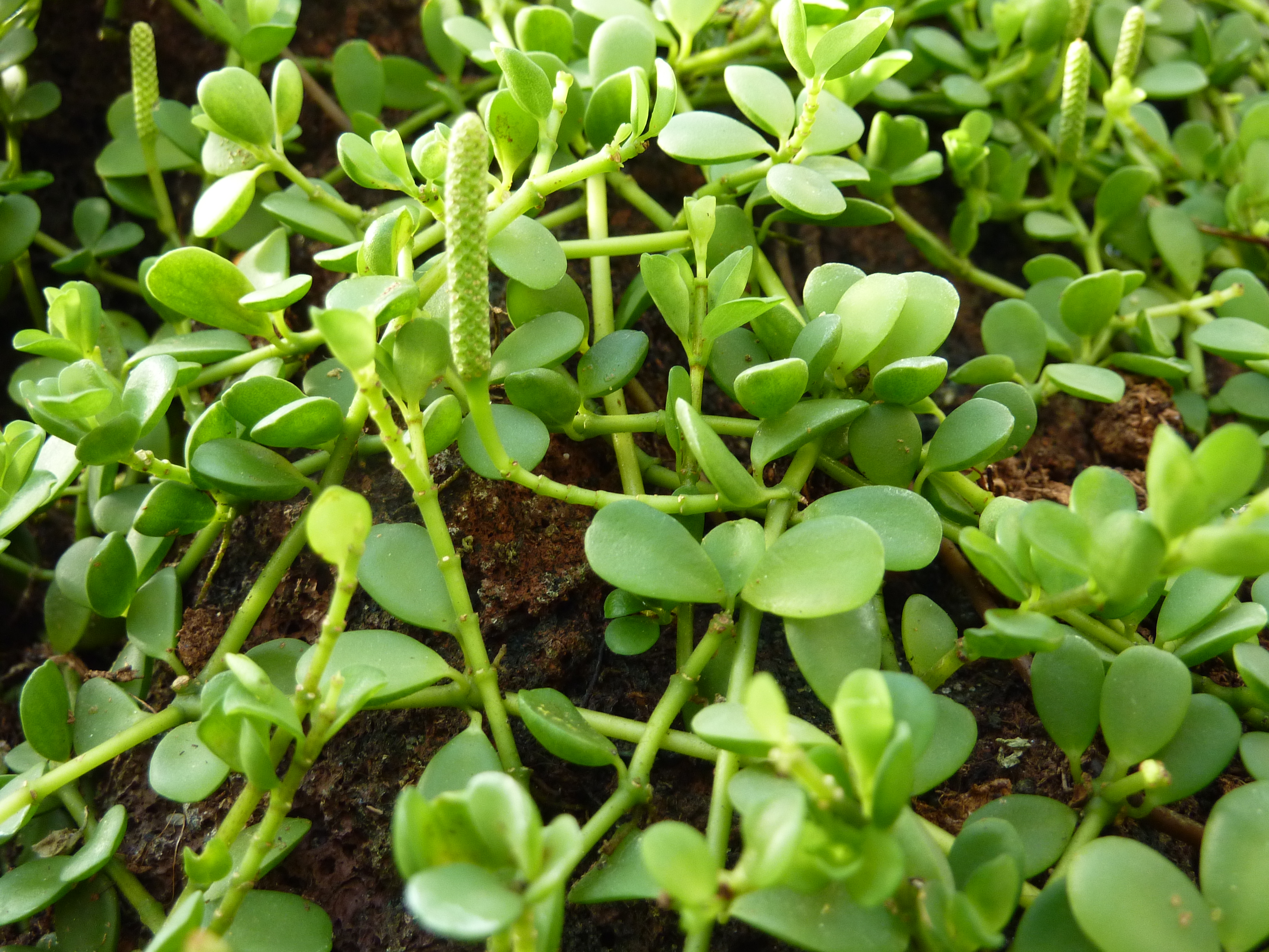 Peperomia caulibarbis in the Botanical Garden, Berlin.